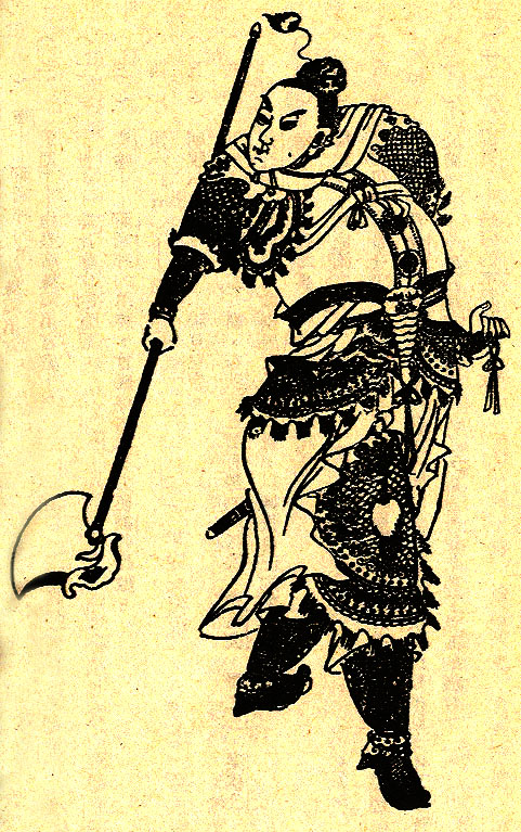 Portrait of Sun Ce from a Qing Dynasty edition of the Romance of the Three Kingdoms